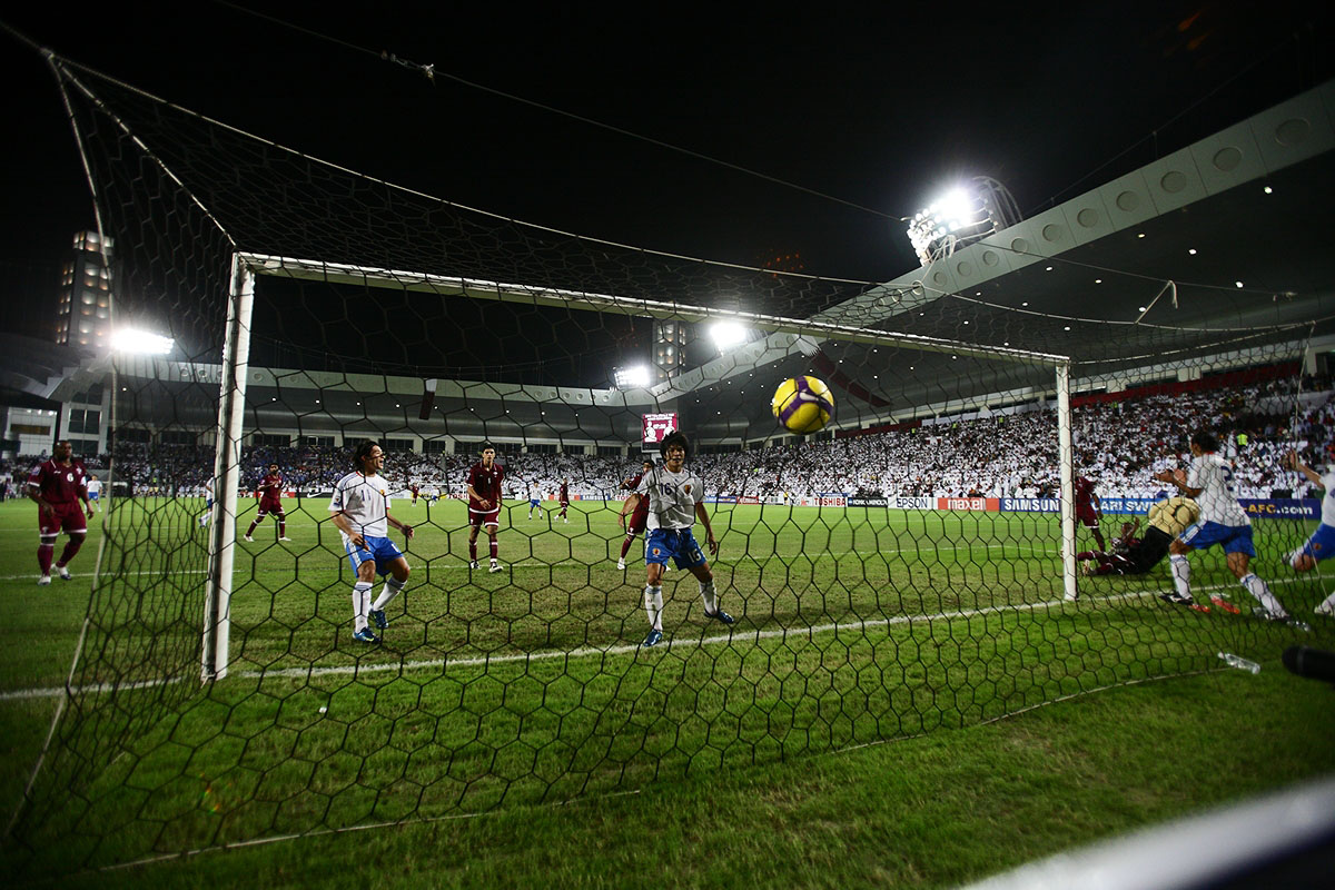 NOVEMBER 19, 2008 - Football : The 2010 FIFA World Cup Asian Qualifiers Final round Group 1 match between Qatar and Japan at Al Sadd Club Stadium on November 19, 2008 in Doha, Qatar. Nr. 16 = Yoshito Okubo. (Photo by Tsutomu Takasu)